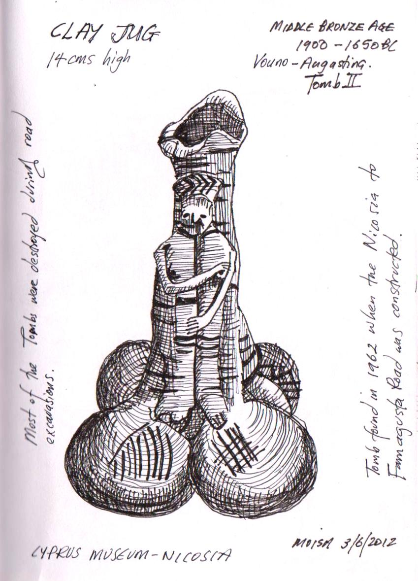 Prehistoric Jug dug up at Vouno in Angastina, Cyprus 1962 002